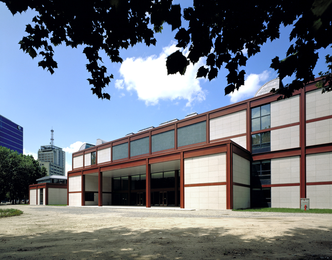 Seoul, Museum of History, 1987-1998